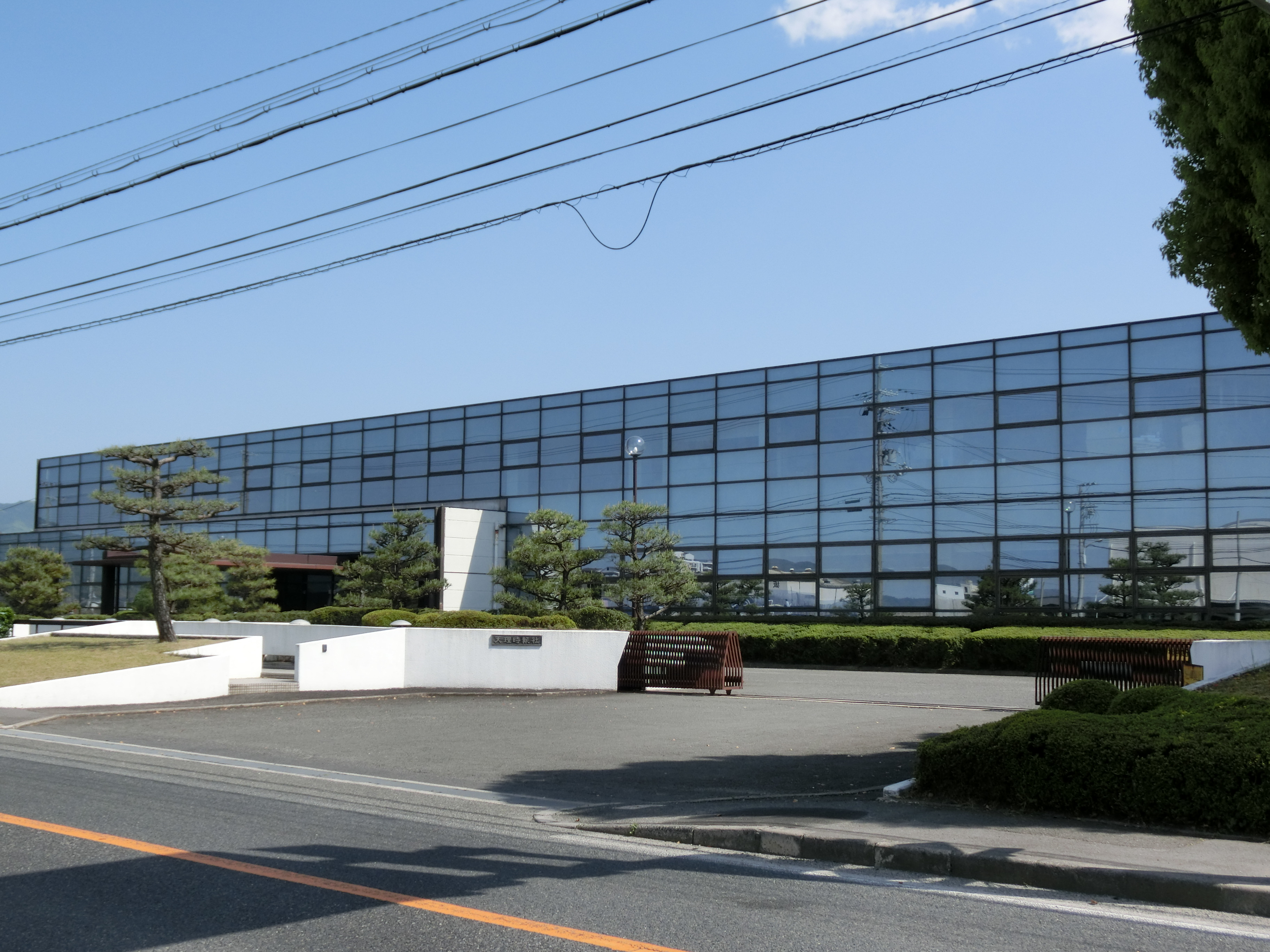 Tenri Jihosha Head Office